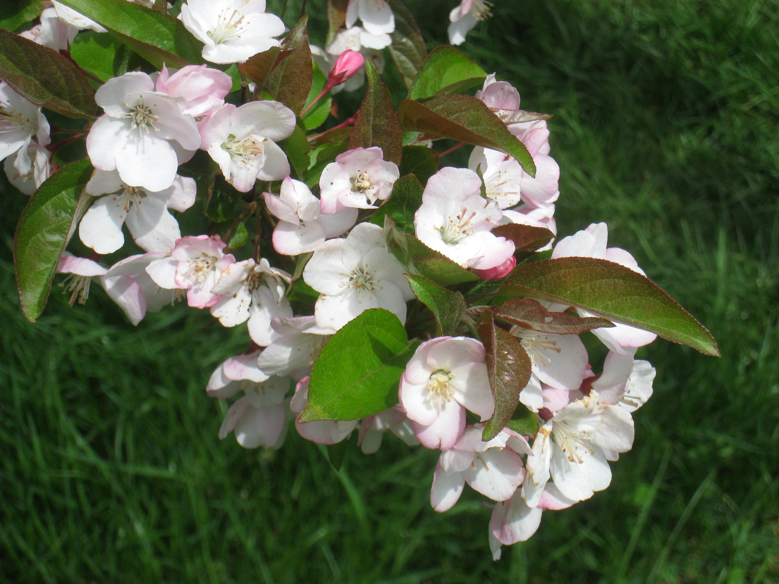 Malus hupehensis, Arnold Arboretum, Jamaica Plain, Boston, Massachusetts, USA.